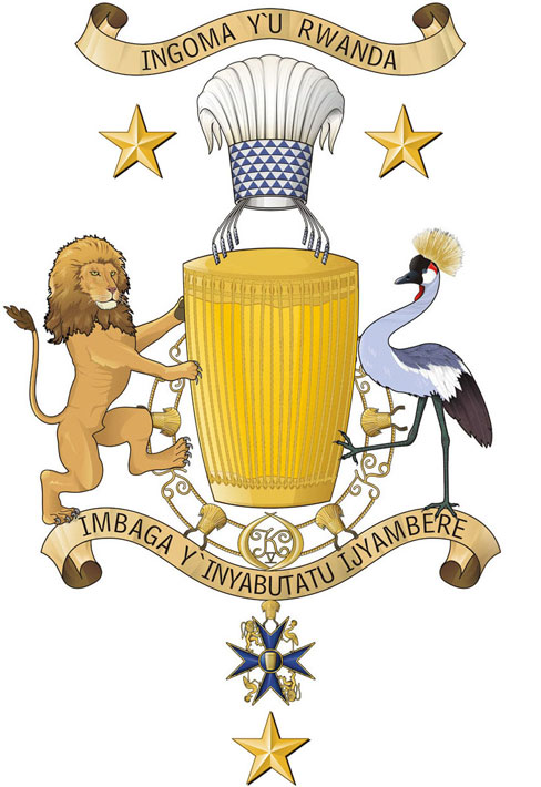 Coat of Arms of the Kingdom of Rwanda